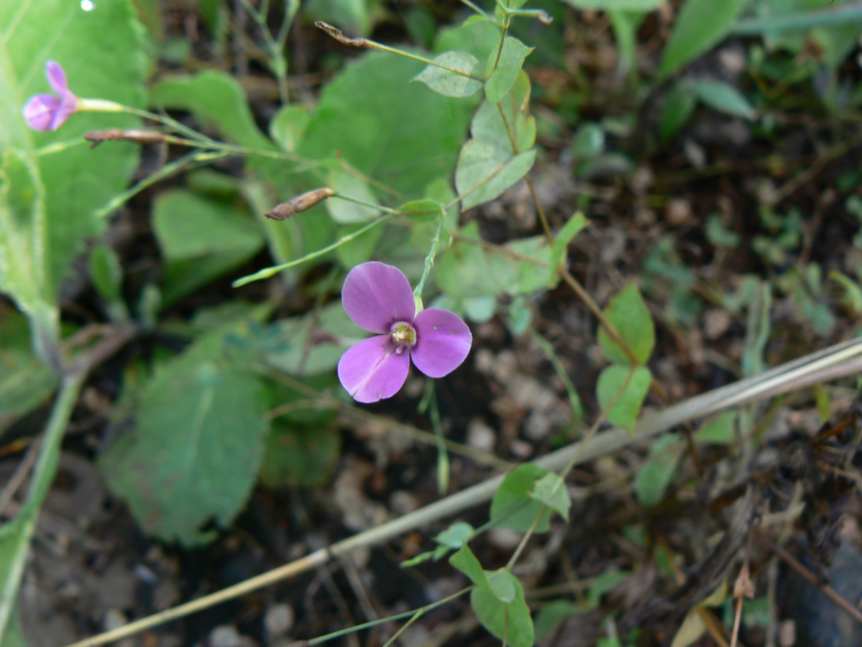 Gentianaceae (gentian family) » Canscora diffusa kan-SKO-ruh -- derivation ? dy-FEW-sa -- meaning, loosely spreading commonly known as: canscora •